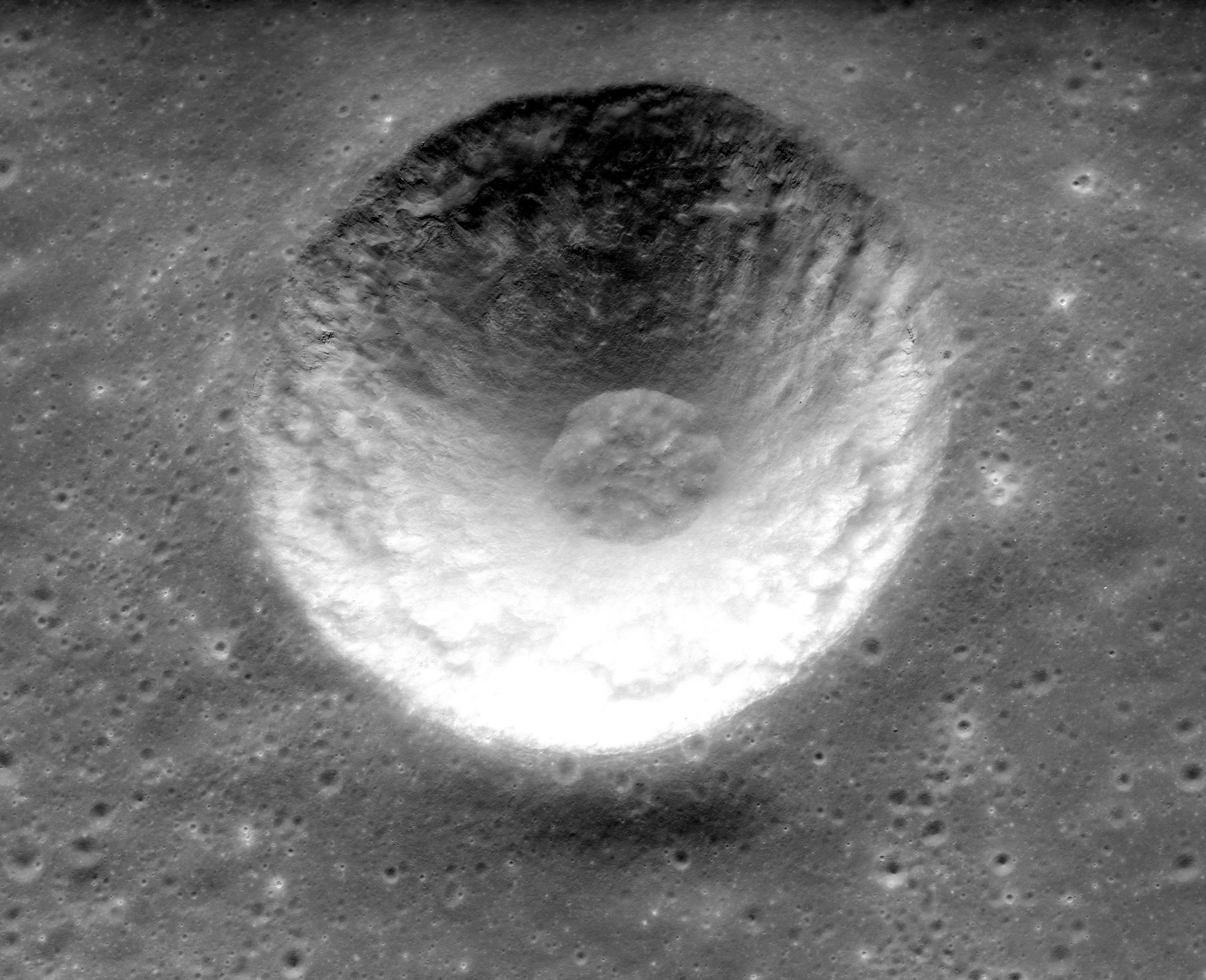 Slightly oblique view of Ammonius crater, within Ptolemaeus, on the moon. Facing east (north at left).